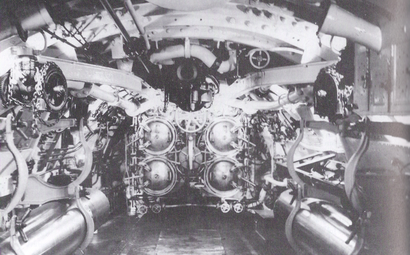 The torpedo room of the United States Navy submarine . The breeches of the four 18-inch (457-mm) (torpedo tubes are at center.